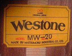 Westone Soundhole